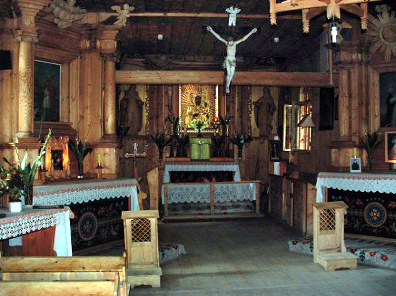 Interior of little church at Pęksowy Brzyzek National Cemetery in Zakopane, photo by Jadwiga